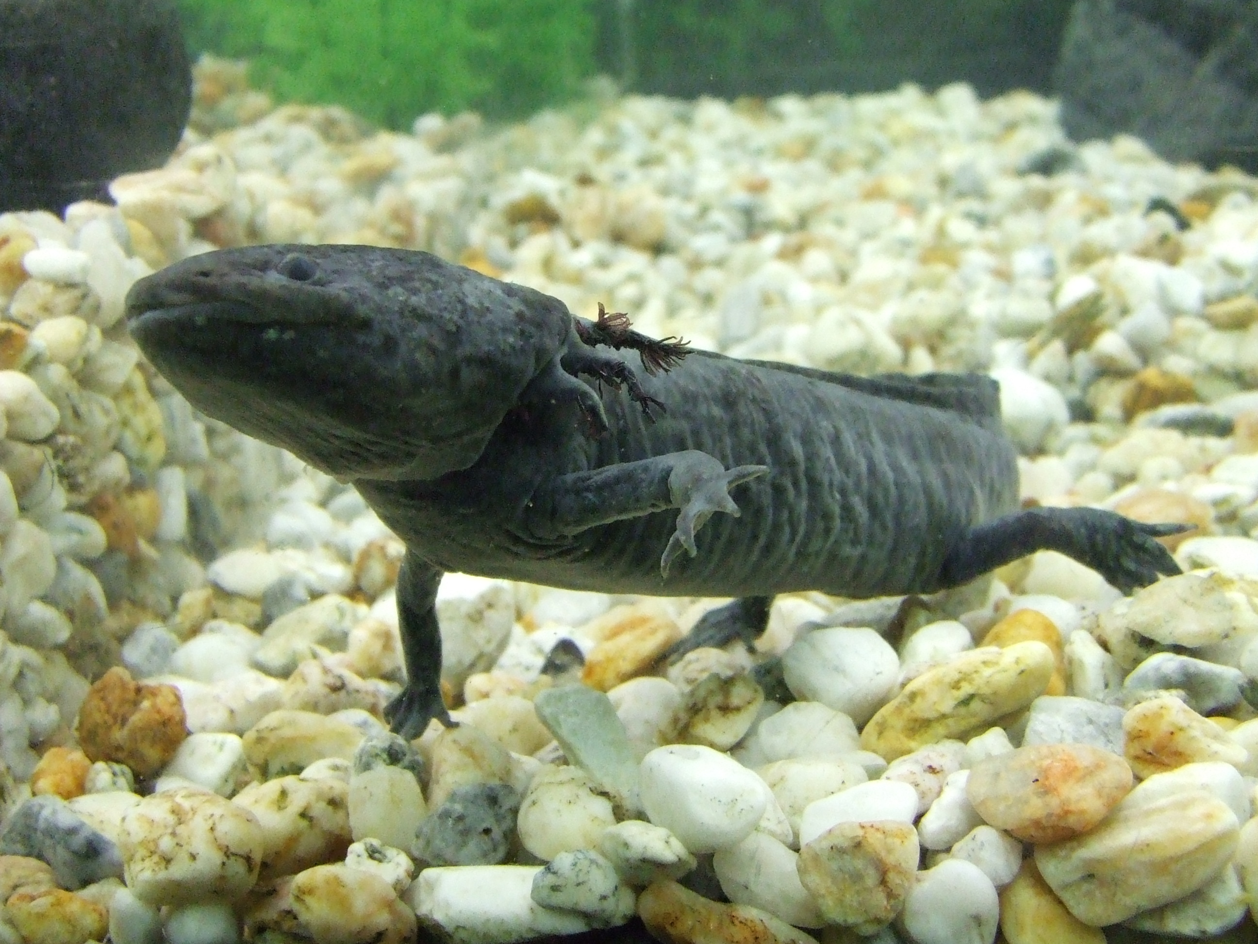 Ajolote de Xochimilco. Zoológico de Chapultepec